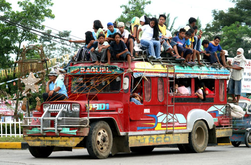 An overloaded Jeepney in southern Philippines